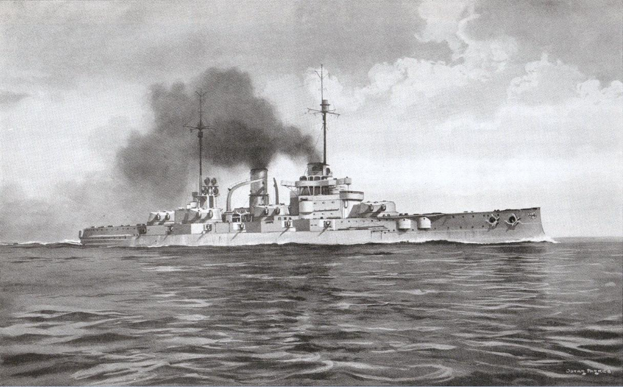 A recognition drawing of the German battleship Nassau prepared by the Royal Navy's Intelligence department that was distributed to the fleet in 1918. The printing plates were also given to the United States Navy and also published in the US in 1918.